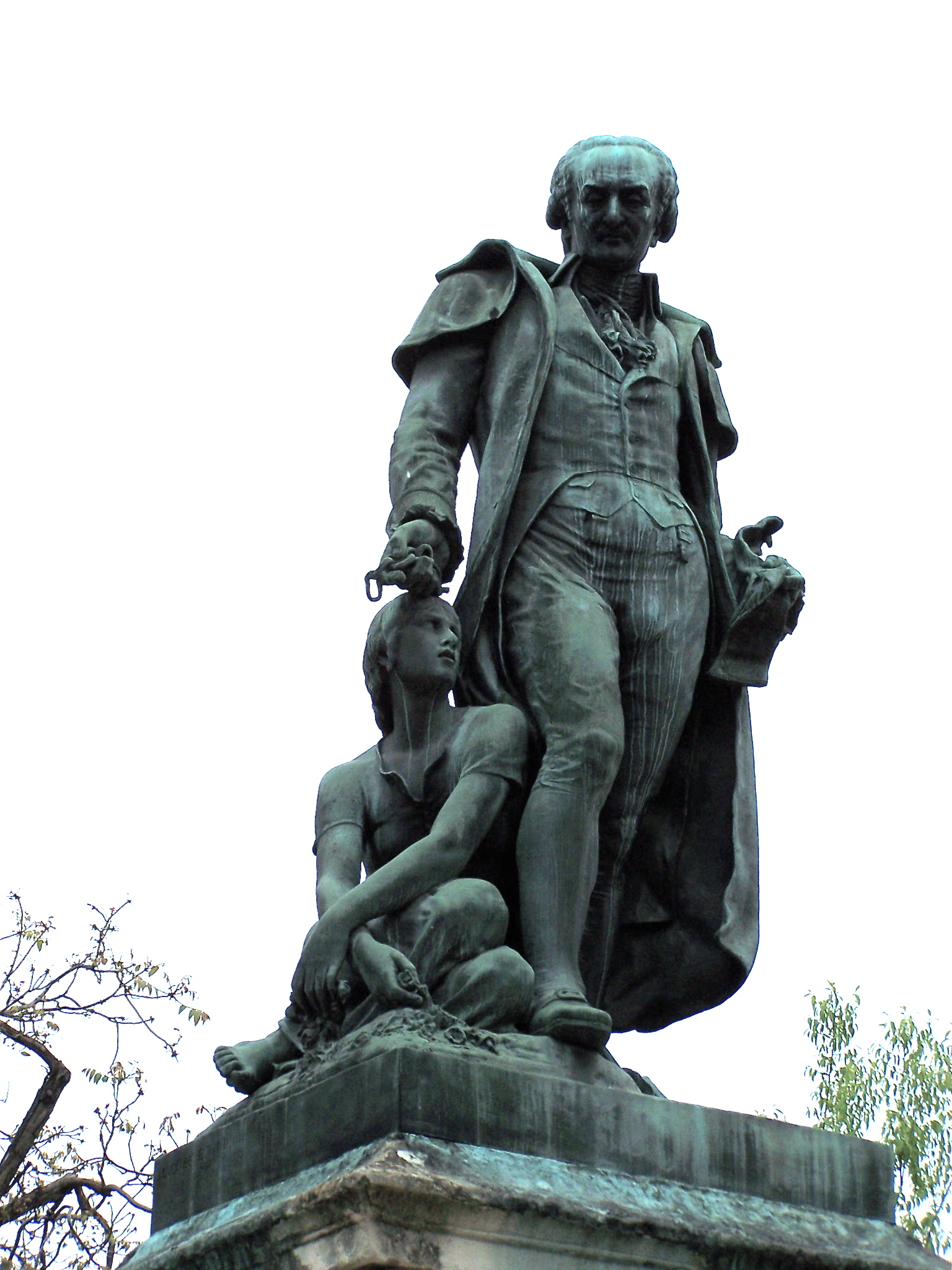 Statue of the french psychiatrist Philippe Pinel in front of the entrance of the Hôpital de la Salpêtrière in Paris, France.